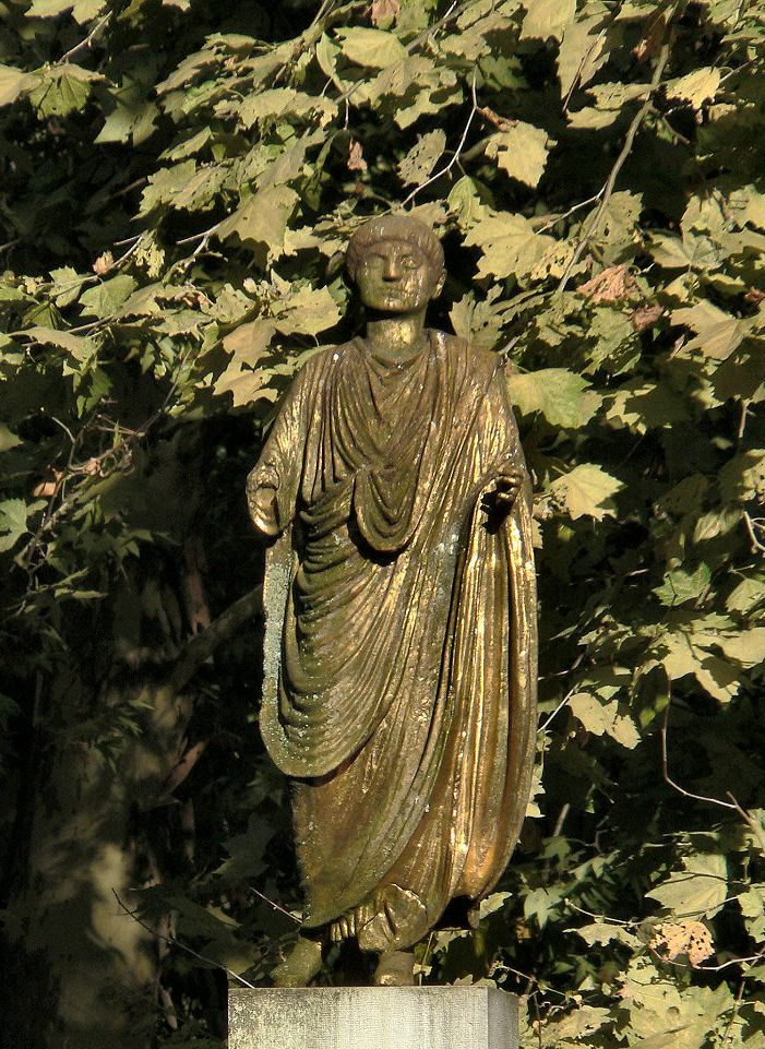 Replica of the Roman statue called "Emonec" in Kongresni trg (Congress Square) of Ljubljana.